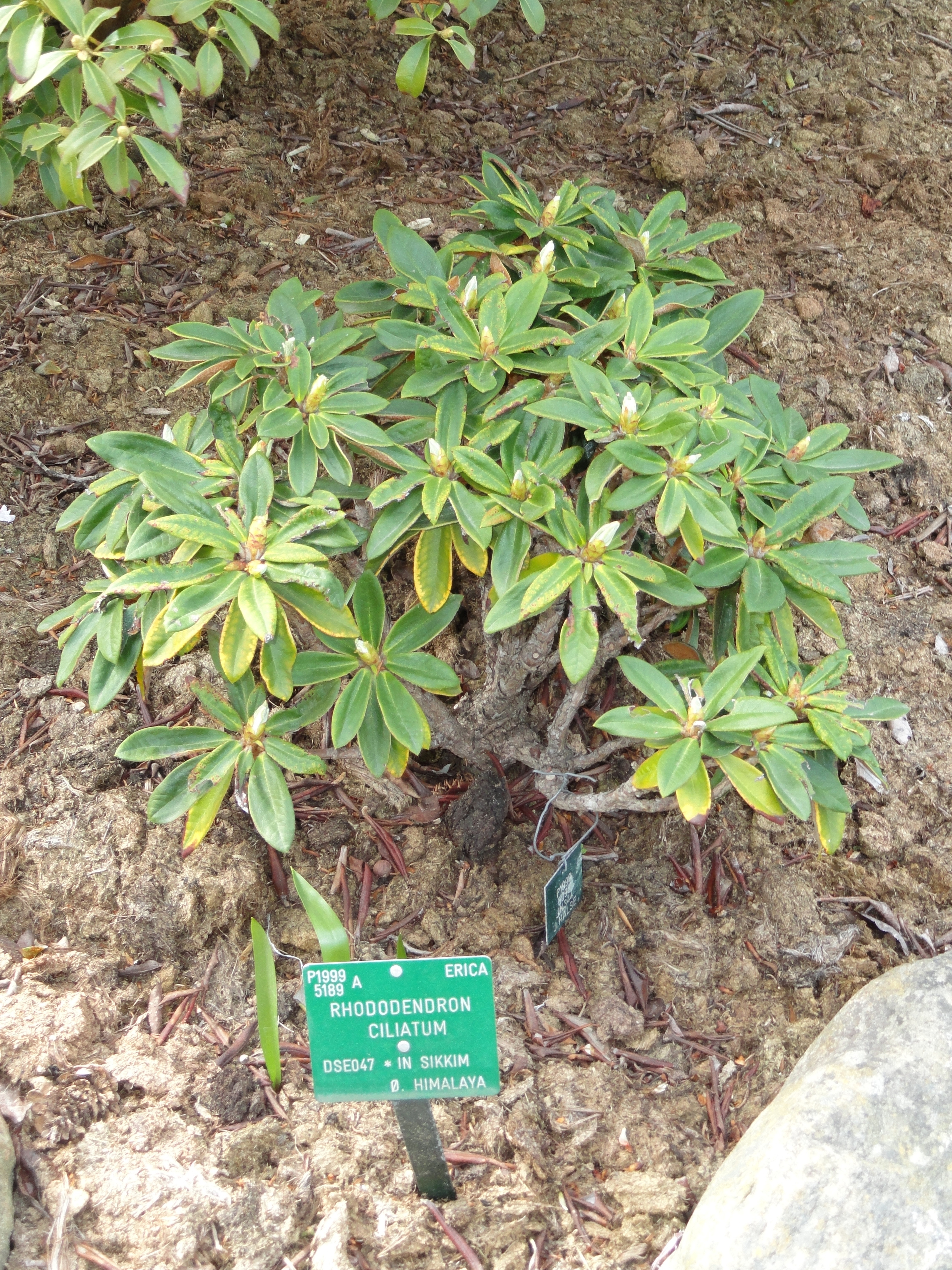 Rhododendron ciliatum specimen in the University of Copenhagen Botanical Garden, Copenhagen, Denmark.